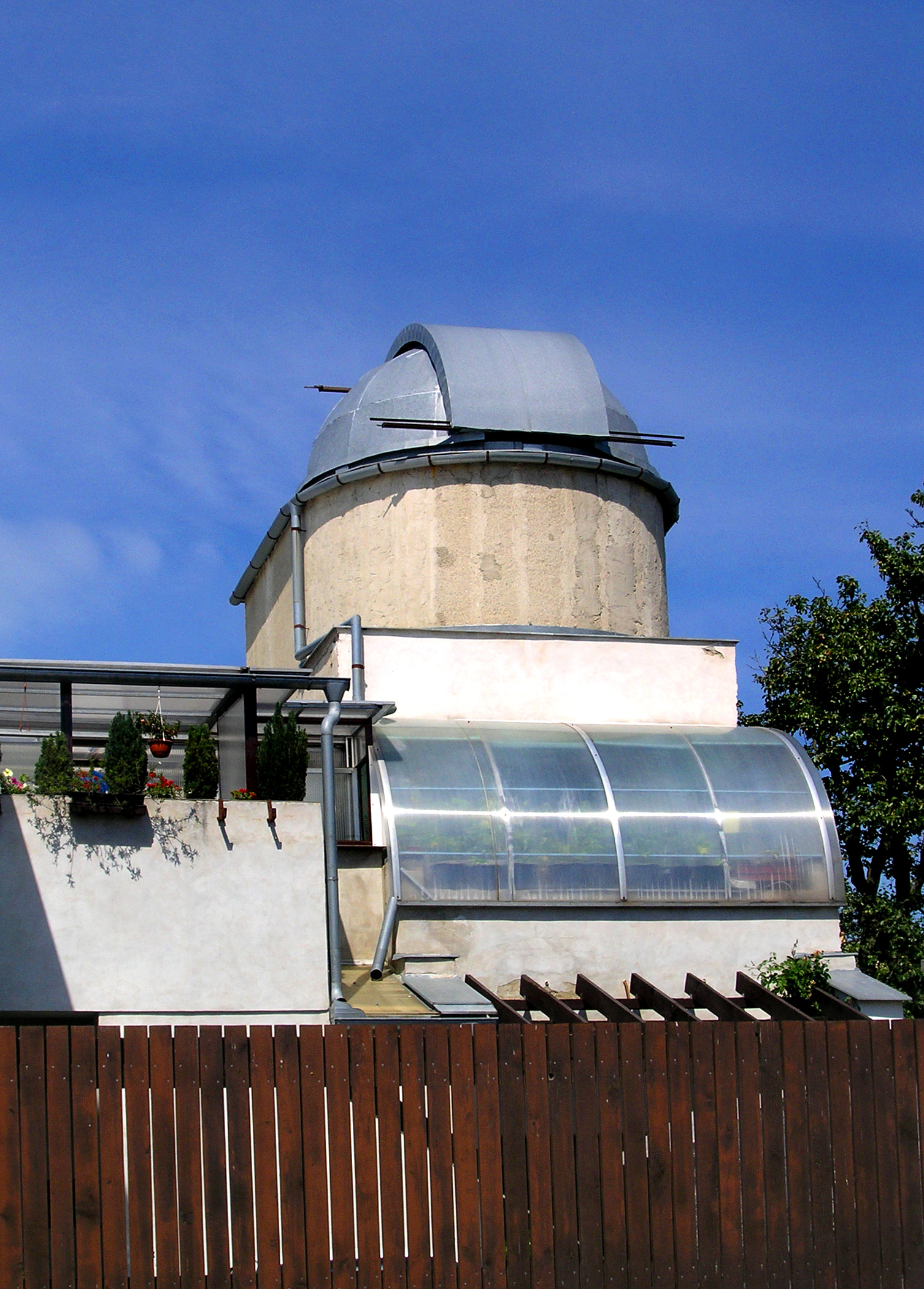 Private observatory in Tihůvka street in Ořešín quarter, Brno, Czech Republic